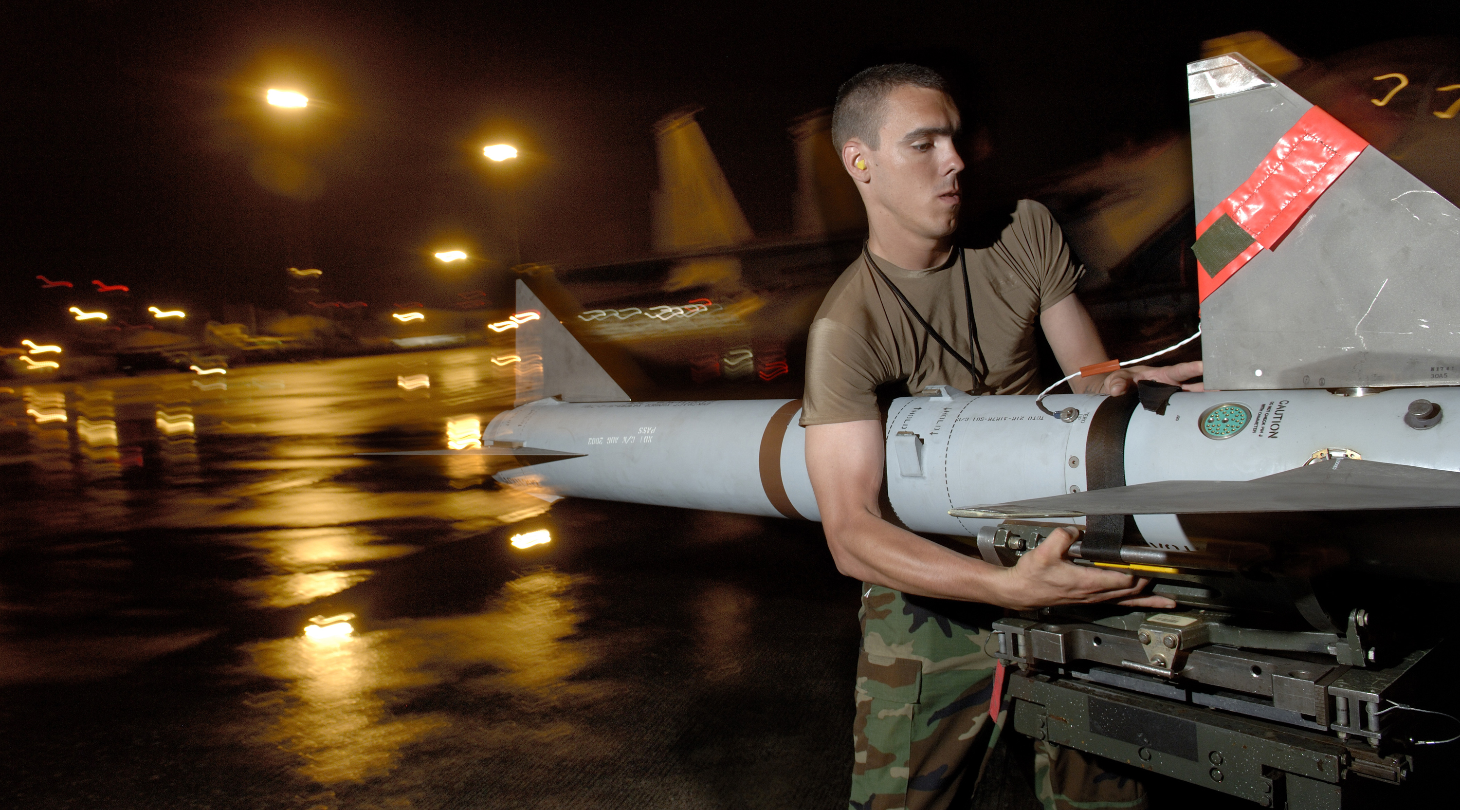 Staff Sgt. David Trosper moves an AIM-7M Sparrow missile into position on a weapons loader during a weapon systems evaluation at Tyndall Air Force Base, Florida The evaluation provides pilots, maintainers and weapons loaders experience with combat-ready weapons.